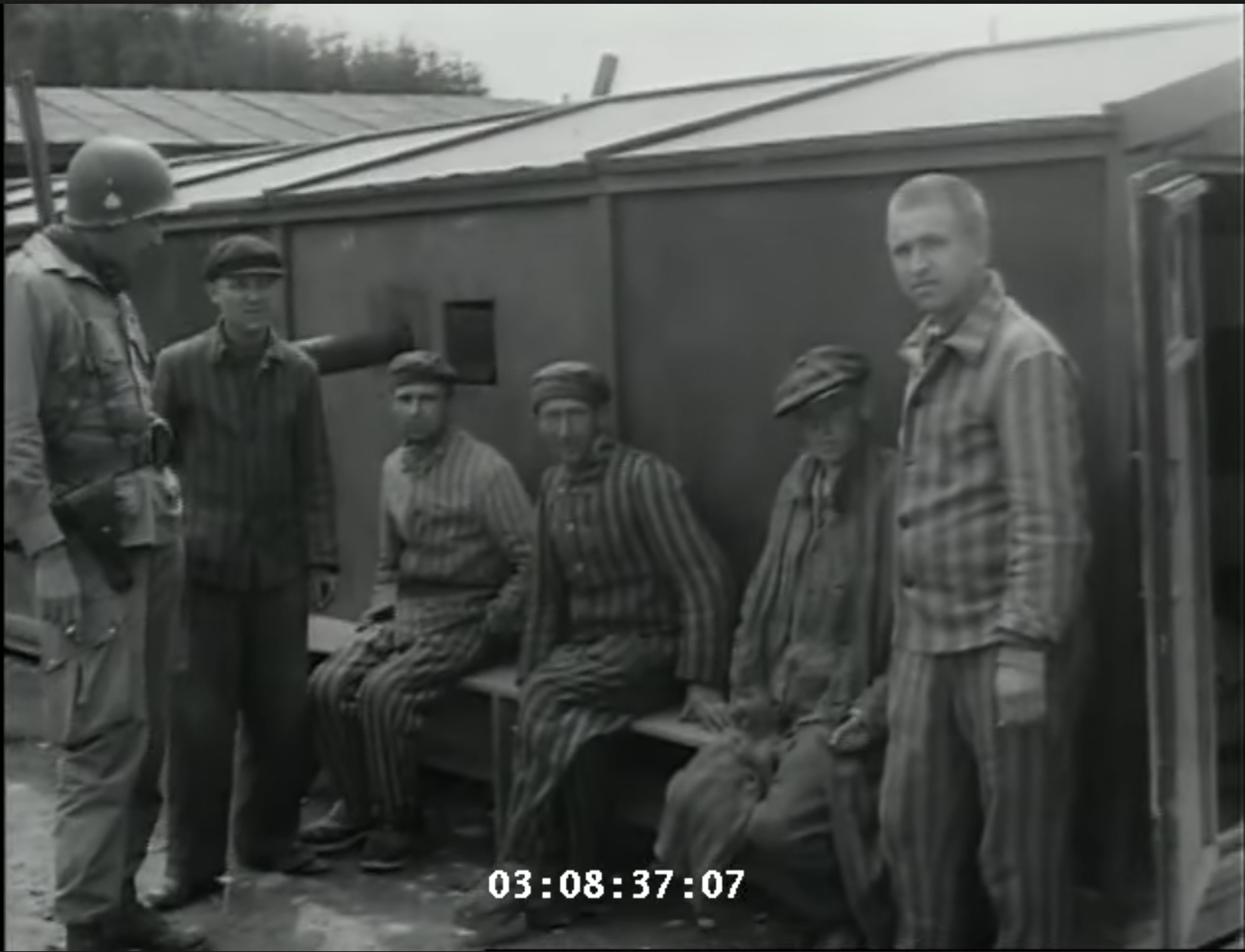 Survivors of Kaufering I concentration camp outside a barracks